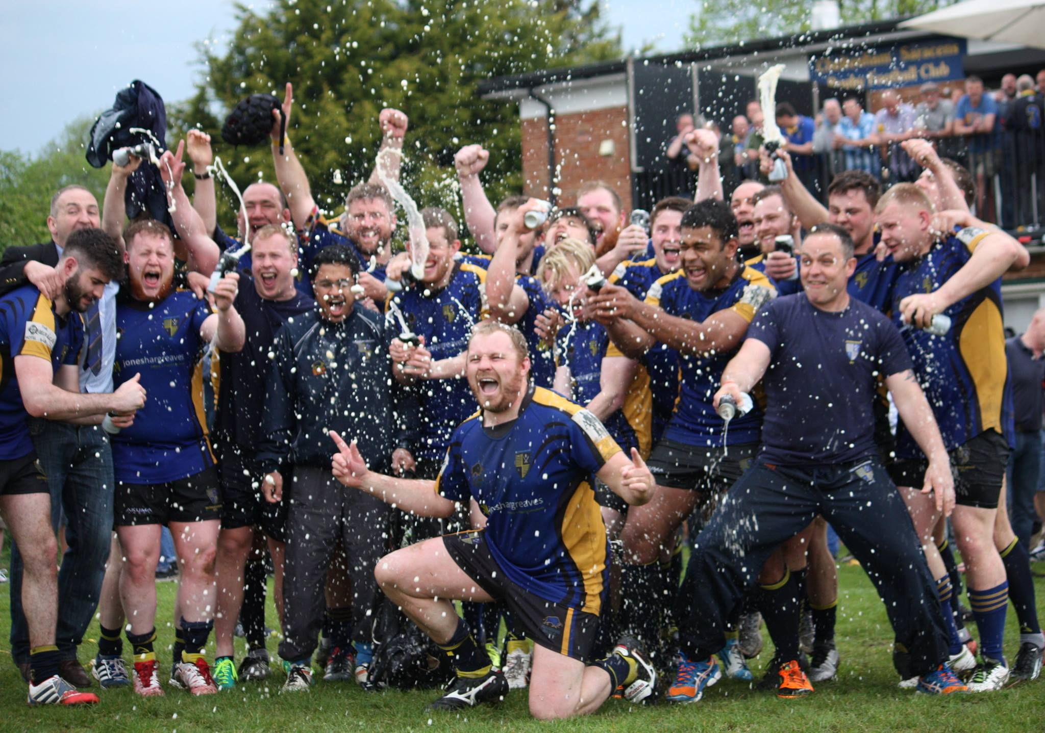 Sarries' Celebration after beating Cheltenham North 38-14